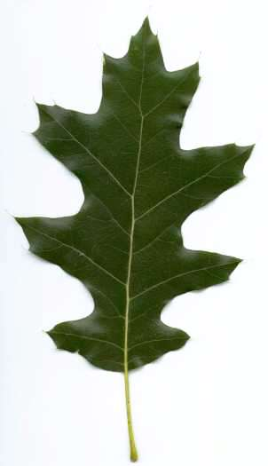 Quercus rubra leaf